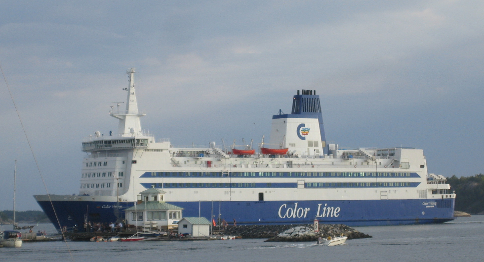 Picture of M/S Color Viking in Strömstad.